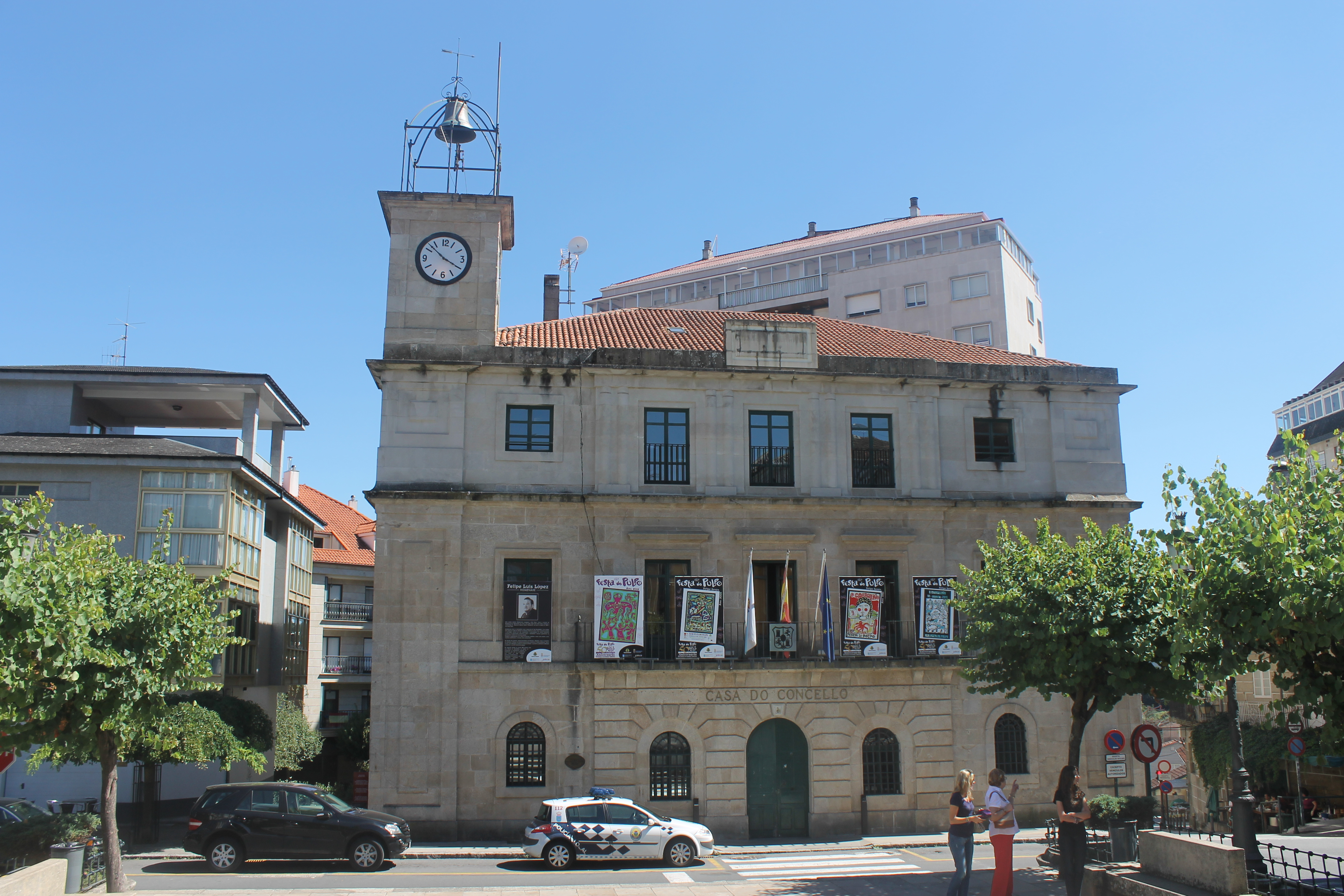 O Carrballiño town hall, Galicia, Spain